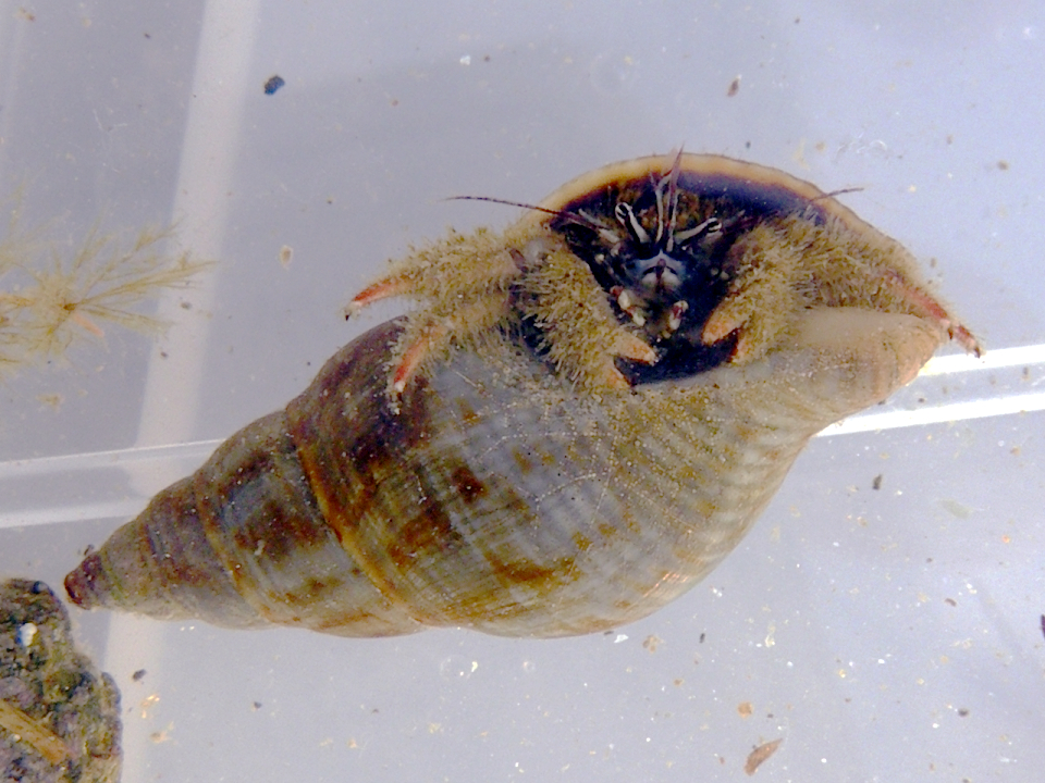 Paguristes ortmanni Miyake, 1978. at Nagasaki